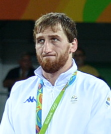 2016 Summer Olympics, Men's Freestyle Wrestling 97 kg awarding ceremony